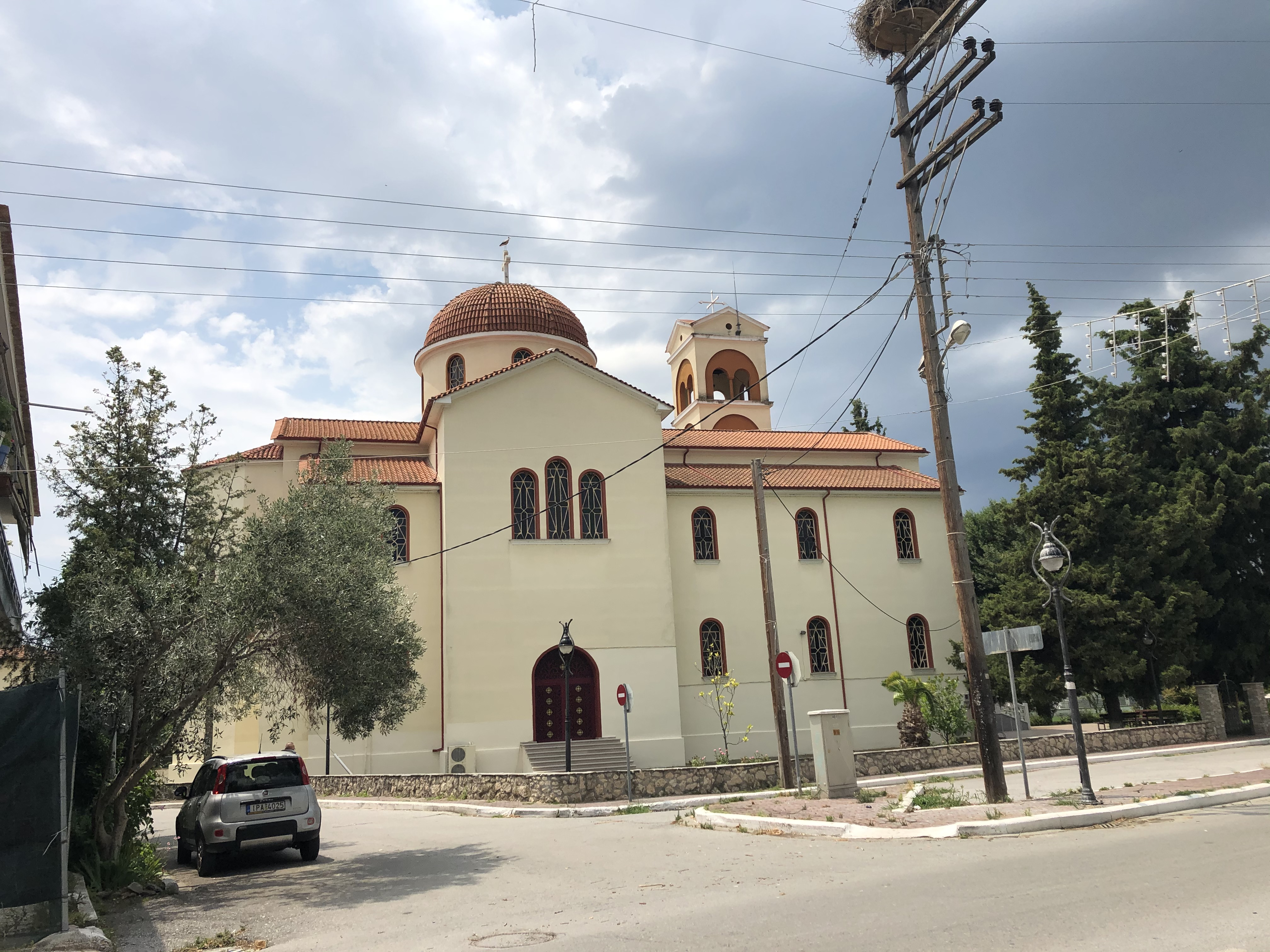 Church St Pantaleimon Korinos Greece